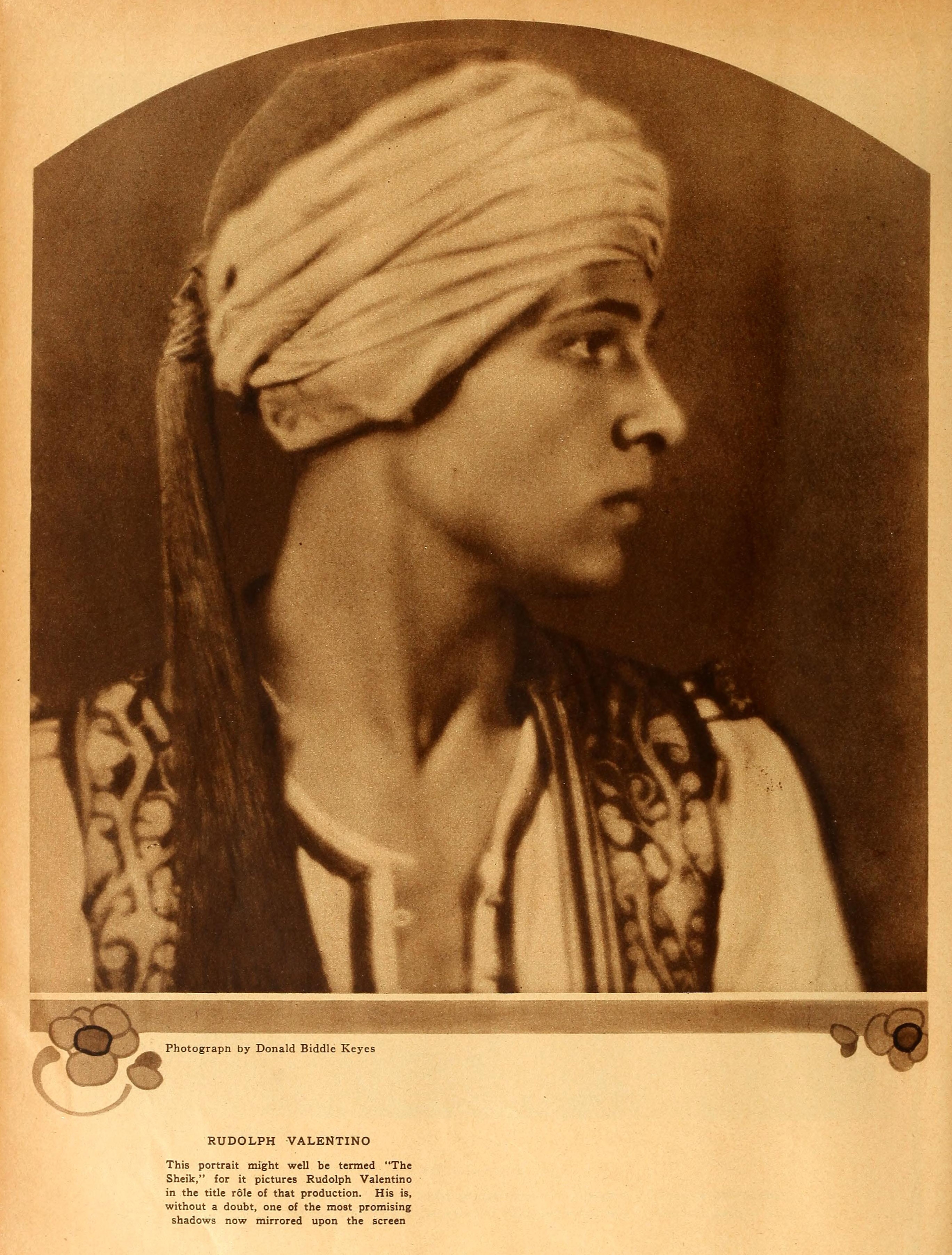 Photograph of Rudolph Valentino in Motion Picture Magazine in his role in The Sheik (1921).